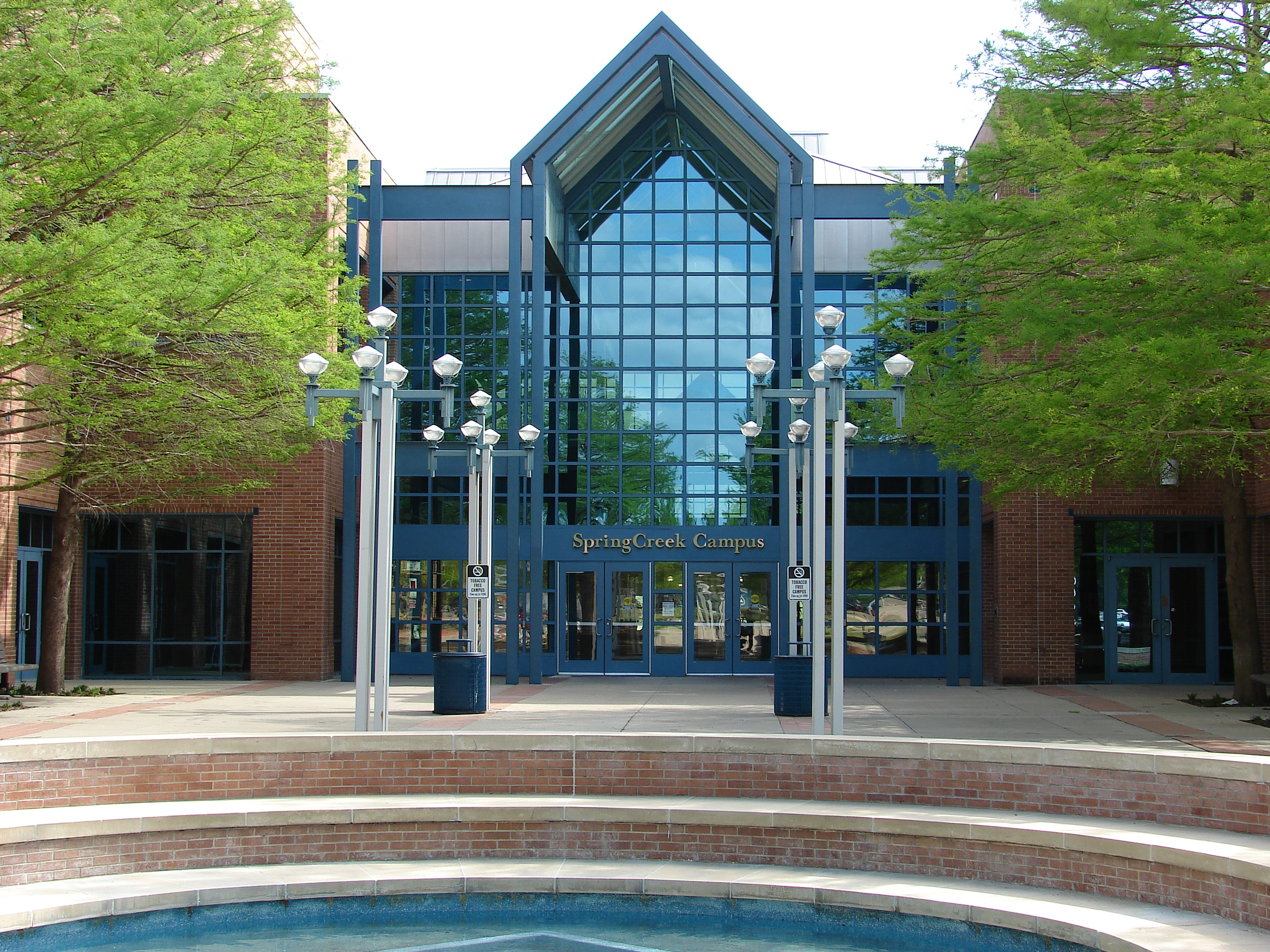 Collin County Community College (CCCC) Spring Creek campus (entrance) in Plano, Texas.